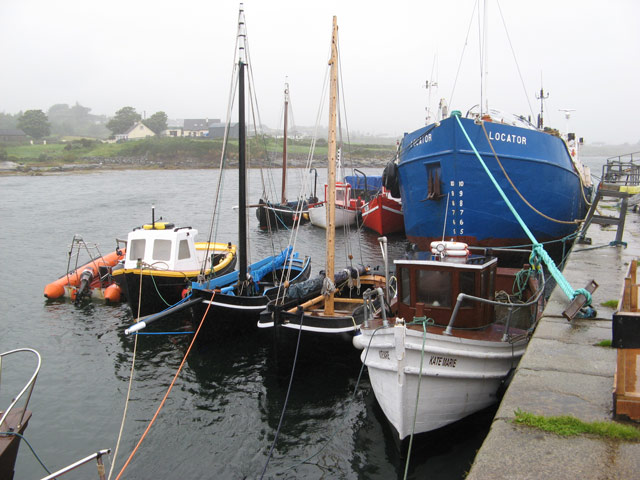 Boats at Kilkieran quay A drizzly day with strong southerly winds is the backdrop to this collection of large and small boats including two well presented hookers. These are sailing craft used originally for trading around Galway Bay and the Aran Islands.